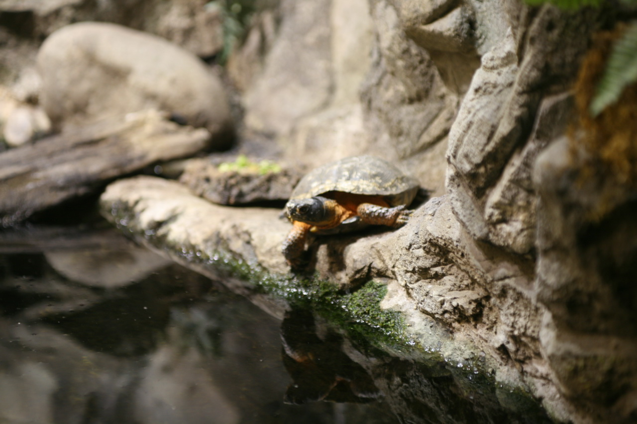 At home on land or in water, wood turtles are found near clear brooks and streams in deciduous forests, as well as in swamps, bogs, wet meadows and fields. They are active for five to nine months of the year, depending on the weather and location. In the winter, they hibernate on the bottom of waterways where the water does not freeze, in a hole in the stream bank, or among submerged, tangled tree roots. With somewhat pyramid-shaped scutes (plates) marked with conspicuous growth rings, the carapace (top shell) of this turtle looks ‘sculpted’. The broad carapace is tan, grayish, or brown and has a low, central keel (mid-dorsal ridge); the scutes usually have radiating yellow streaks. The underside of the carapace and the plastron (bottom shell) are yellow with one large, dark blotch on each scute. The head is black, sometimes with faint yellow markings. The rest of the skin is brown with variable yellow to red coloration on the throat, neck, tail and legs.